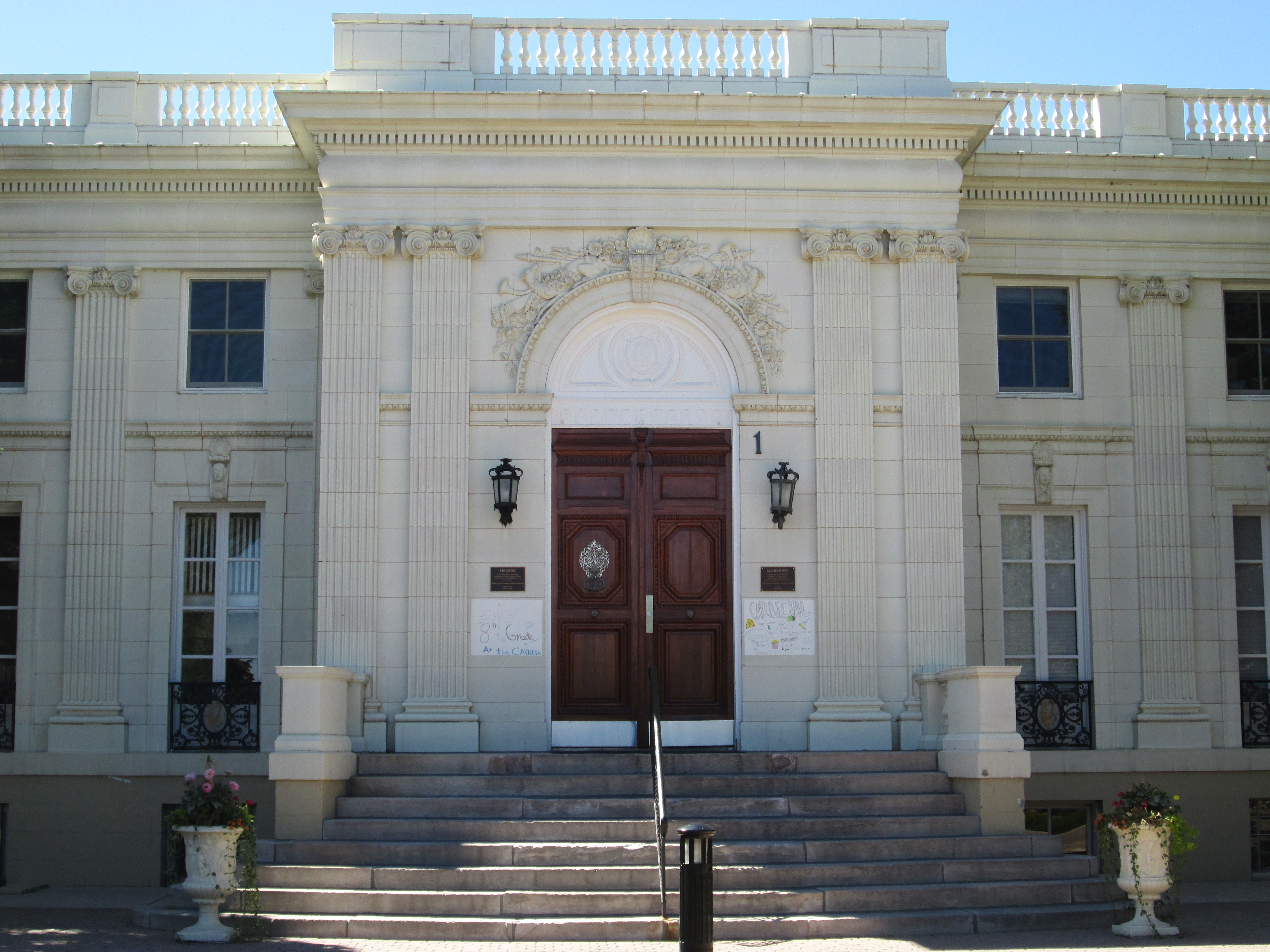 Claremont Estate on the campus of Colorado Springs School - Colo Spgs, CO (close up of front entry) on Broadmoor Avenue